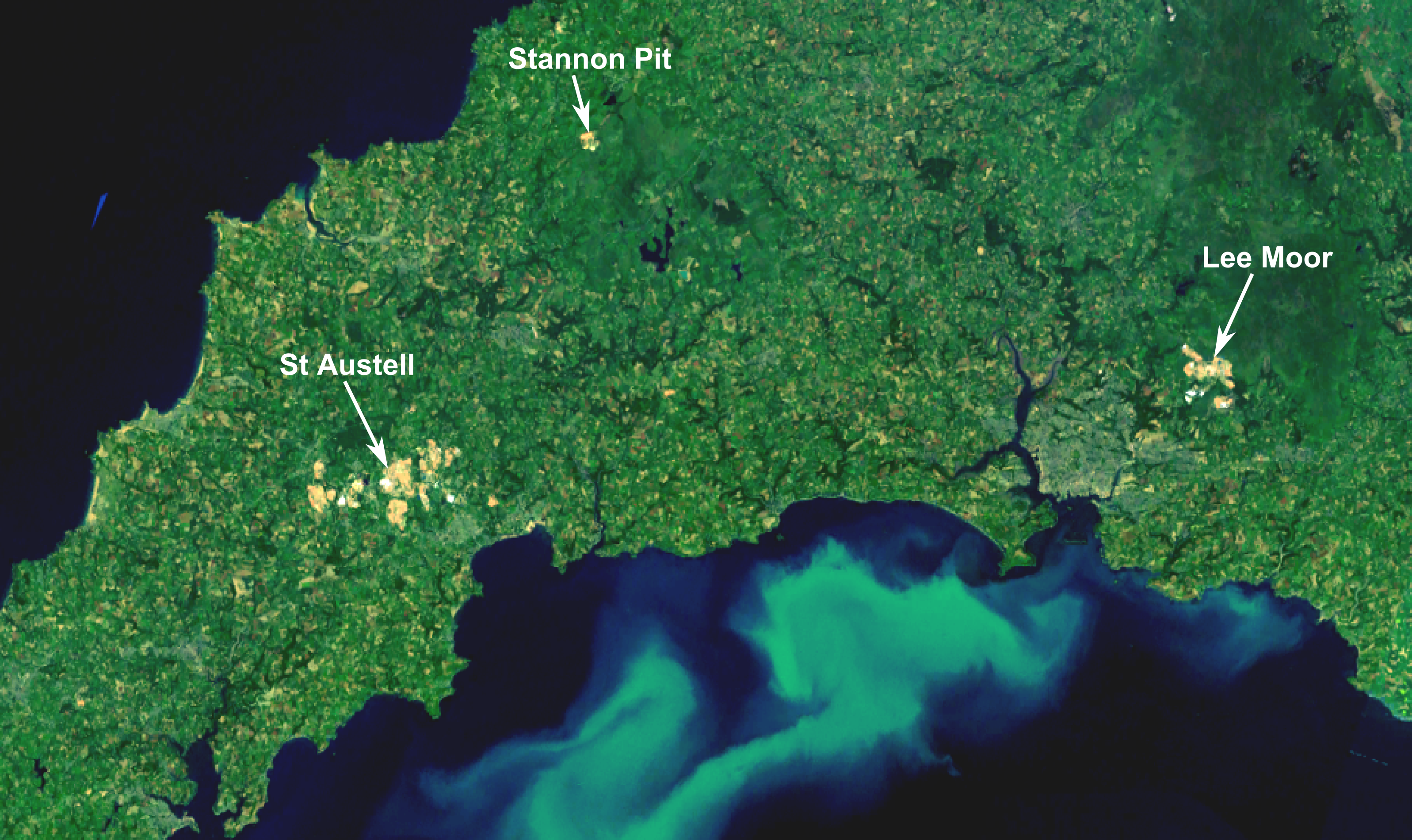 Screen capture from Nasa World Wind software of the southwest of England showing the location of China Clay workings (labelled)